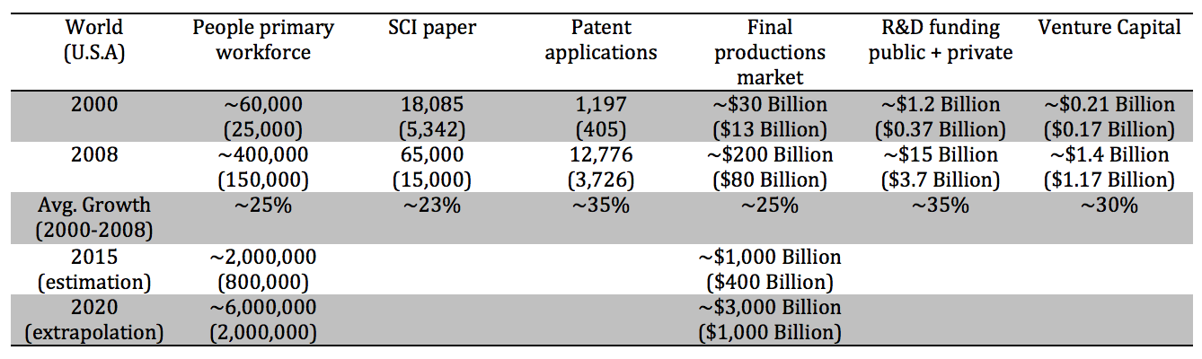 DESCRIPTION of my won work table